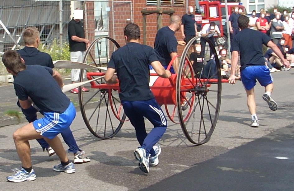 An picture taken during the discipline „Hose Cart “ of the international German championships 2007 in the American Muster, aligned of the voluntary fire-brigade Duisburg Baerl Binsheim